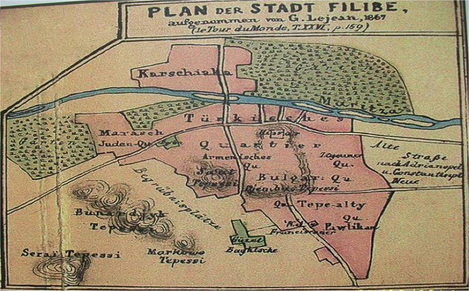 Map of Plovdiv, prepared by Guillaume Lejean in 1867